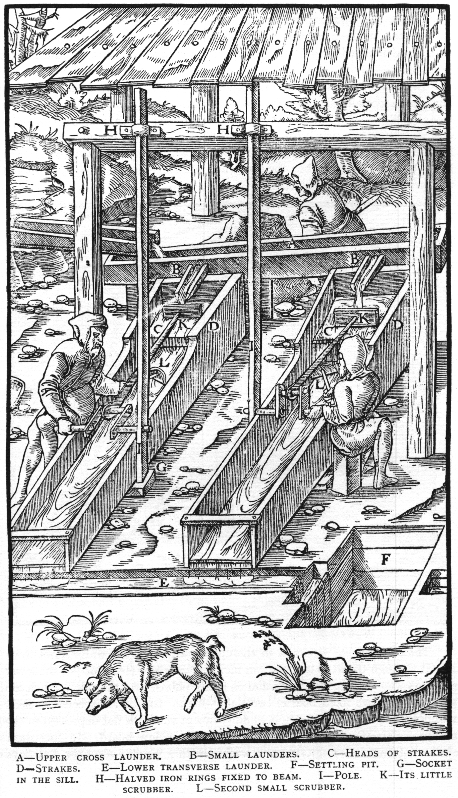 Woodcut illustration from De re metallica by Georgius Agricola. This is a 300dpi scan from the 1950 Dover edition of the 1913 Hoover translation of the 1556 reference. The Dover edition has slightly smaller size prints than the Hoover (which is a rare book). The woodcuts were recreated for the 1913 printing. Filenames (except for the title page) indicate the chapter (2, 3, 5, etc.) followed by the sequential number of the illustration.